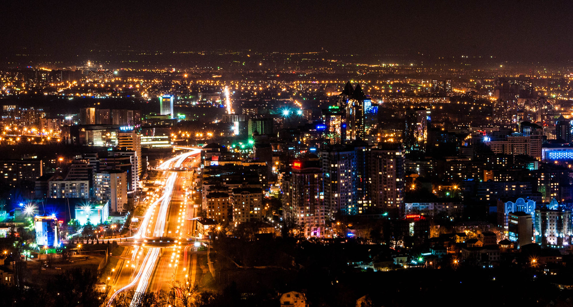 Almaty at night, Kok-tobe exposition 3